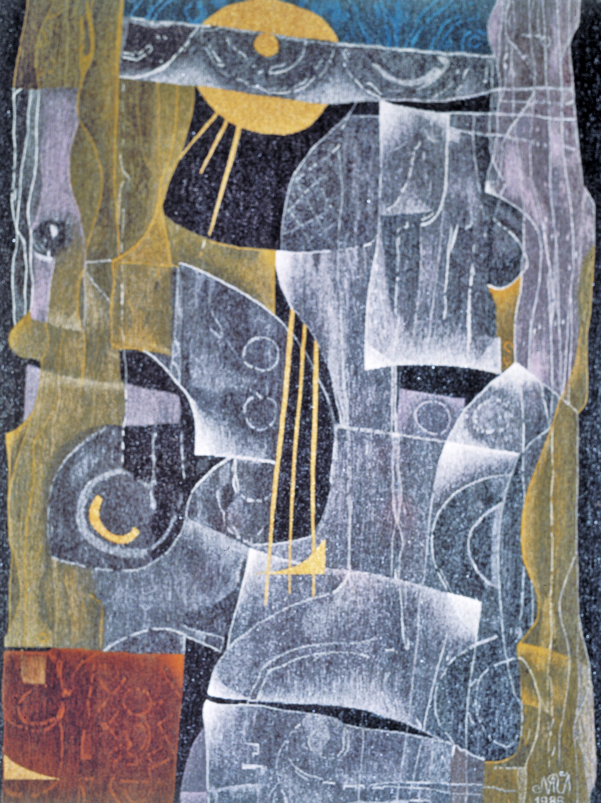 Mara Josifova, wall carpet, " Abstract " 230cm-200cm, 1985